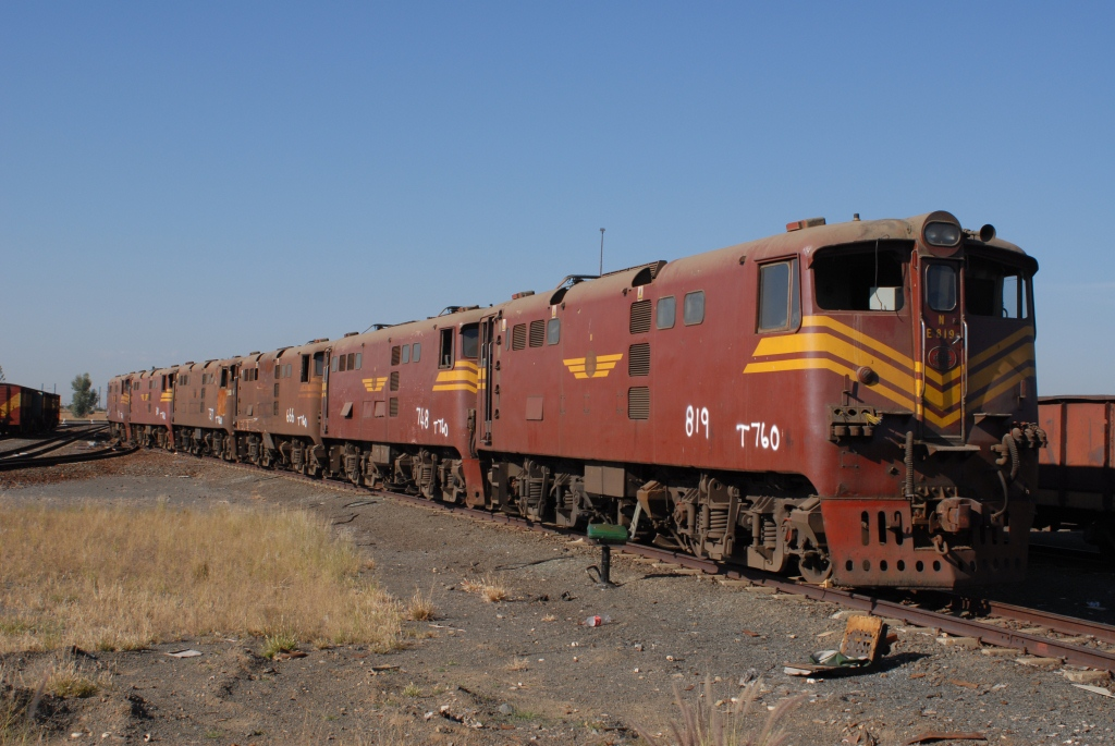 SAR Class 5E1 Series 3 E819Location: Danskraal, Ladysmith, KwaZulu-Natal